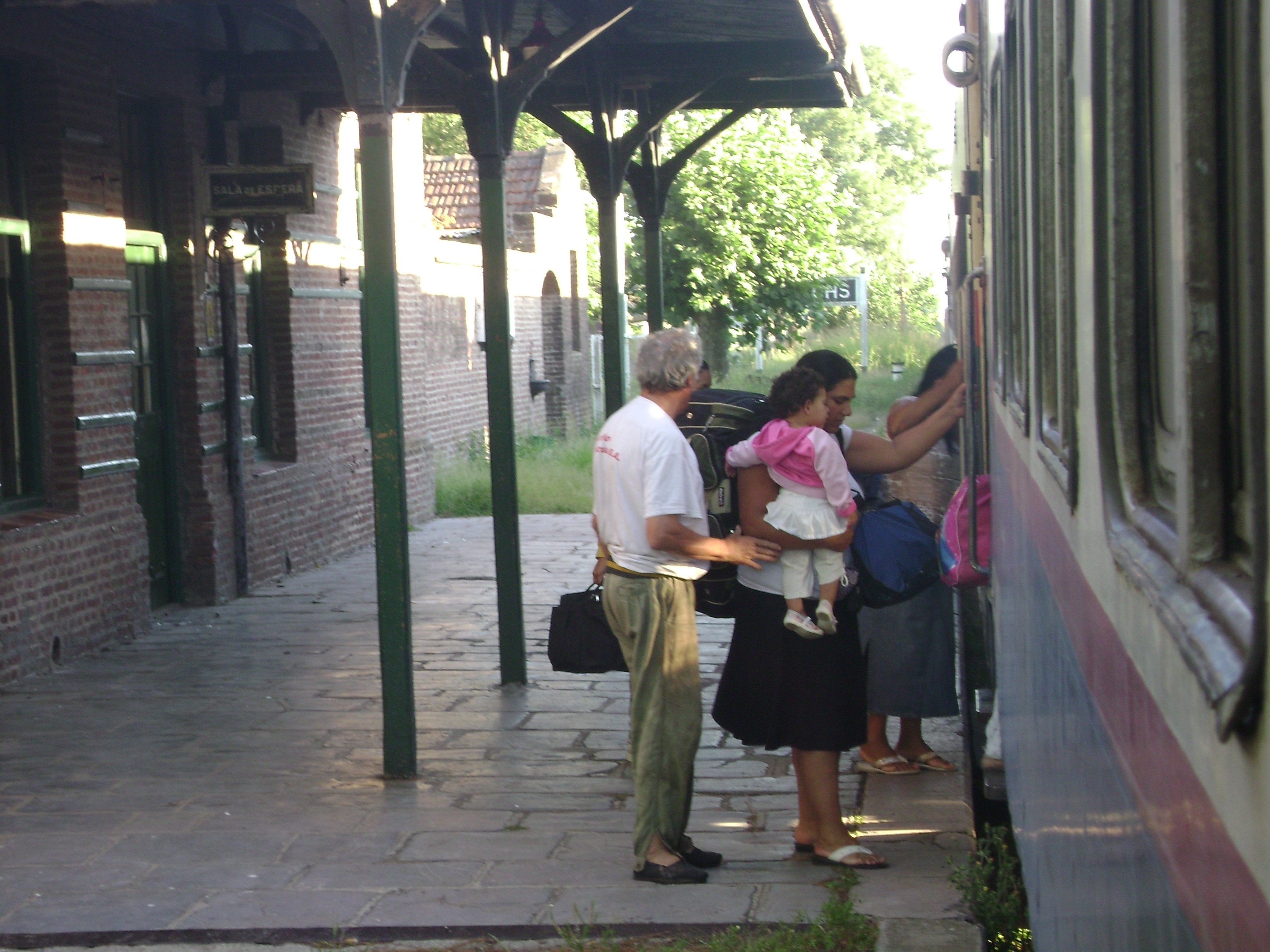 Gorchs Train Station